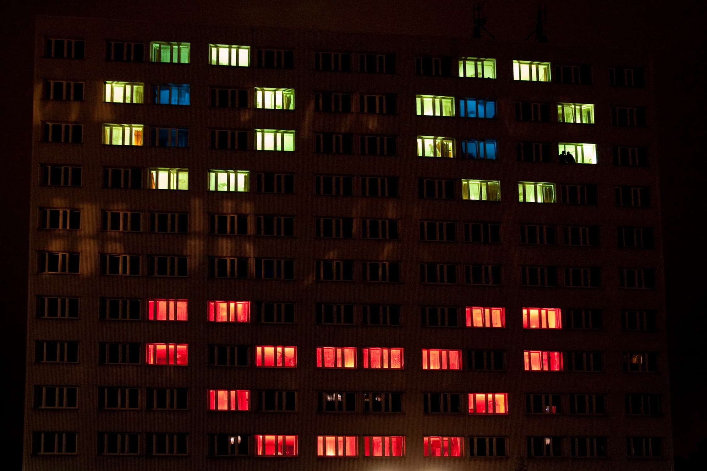 Potężny Indeksowany Wyświetlacz Oknowy nr 4, rok 2010 This work is free and may be used by anyone for any purpose. If you wish to use this content, you do not need to request permission as long as you follow any licensing requirements mentioned on this page.